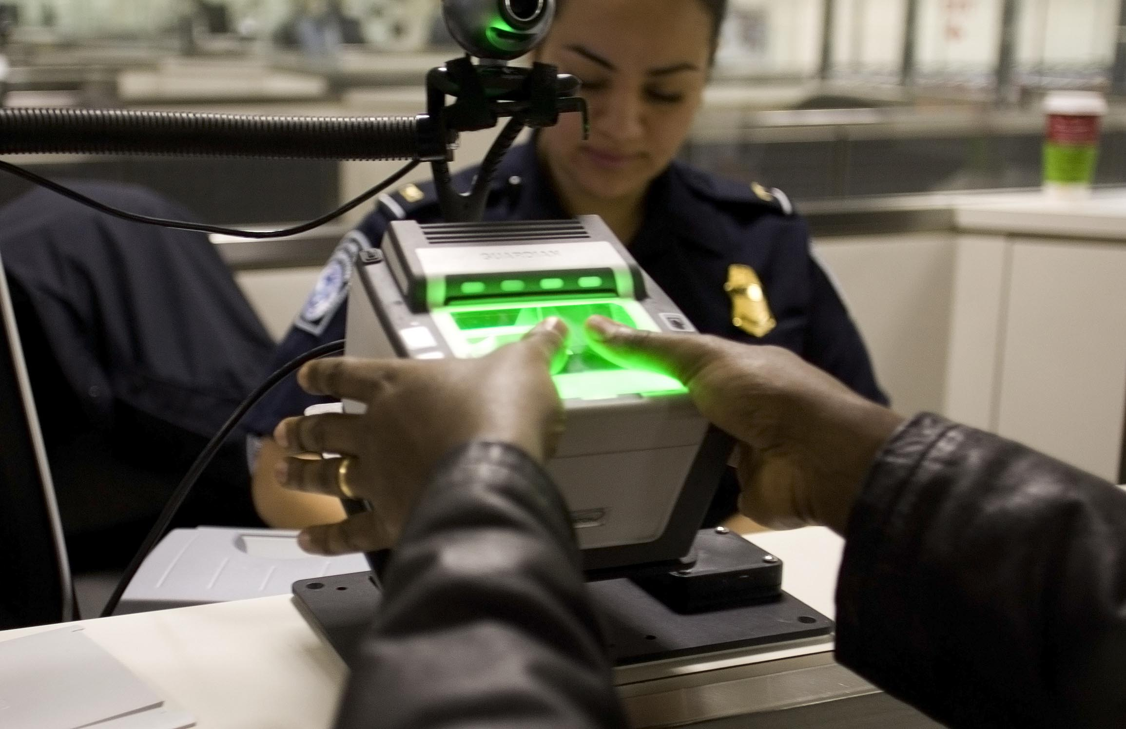 A traveler arriving at Washington Dulles International Airport Monday uses the new US-VISIT mechanism that records all 10 fingerprint images.